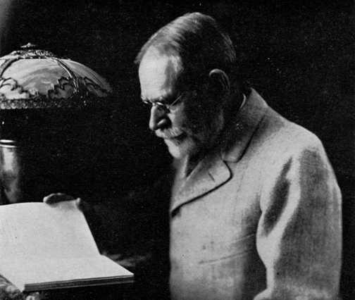 Figure 1.—Charles Sumner Tainter (1854-1940) from a photograph taken in San Diego, California, 1919. (Smithsonian photo 42729-A.)